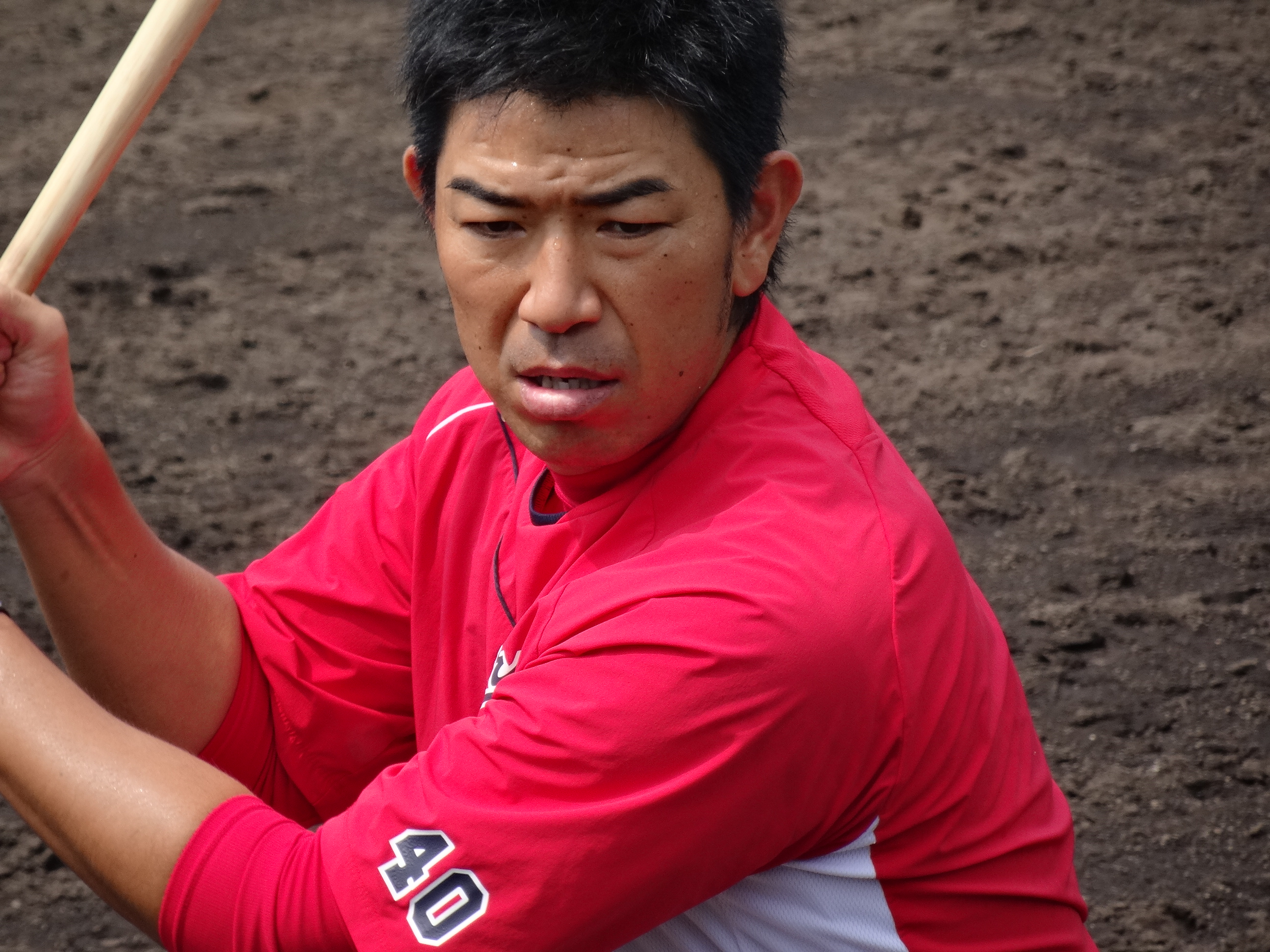 Yoshikazu Kura, catcher of the Hiroshima Toyo Carp, at Hanshin Naruohama Baseball Ground.